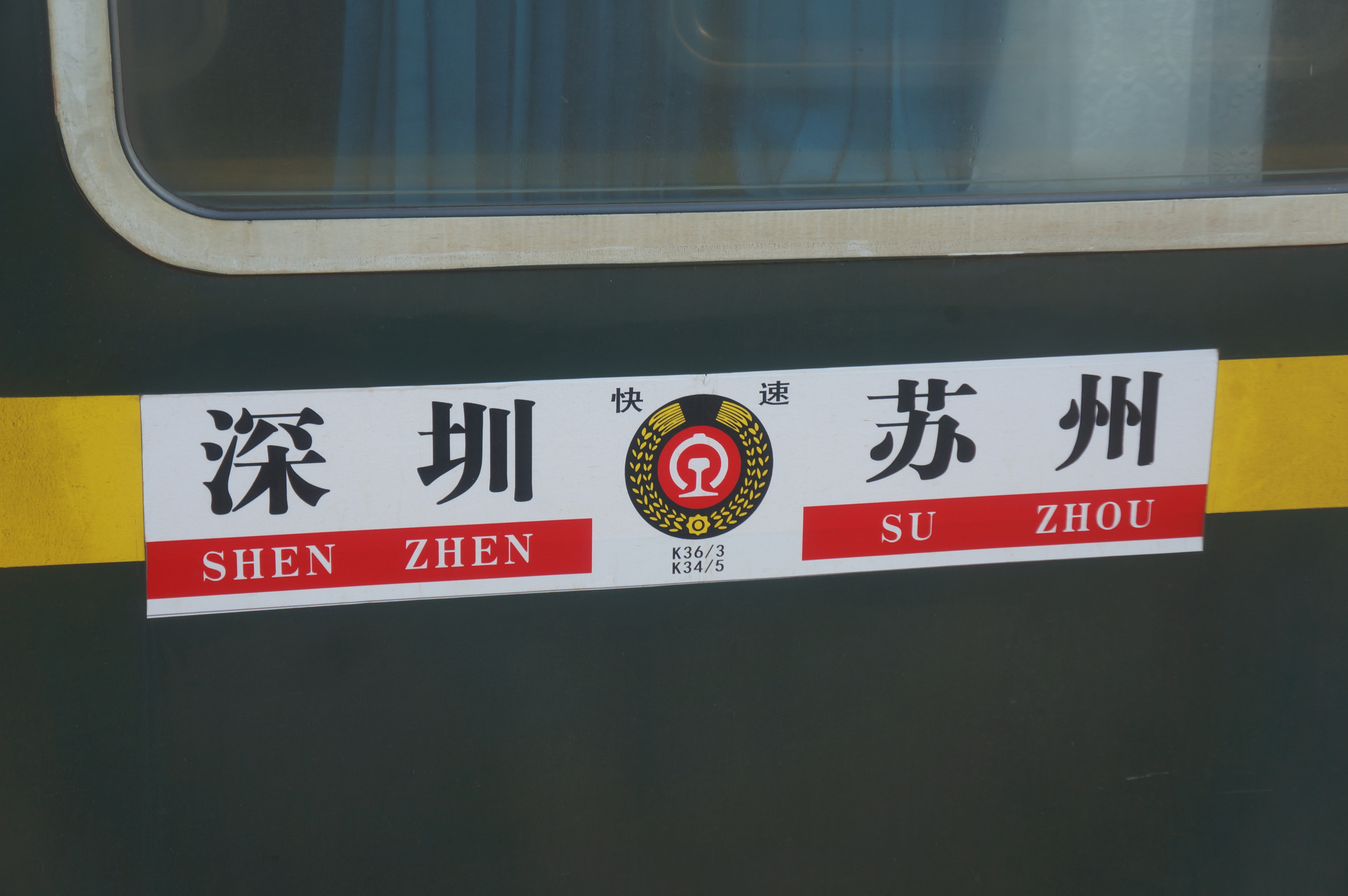 K33 34 35 36 infoboard in 201806. Taken at Huangshan Station.